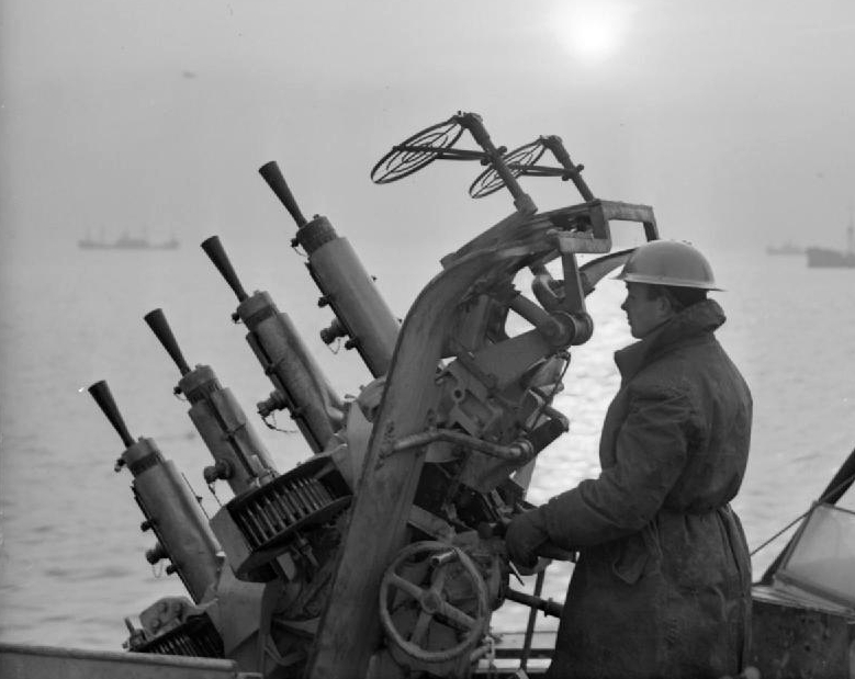 IWM caption : "0.5 inch Vickers machine guns in quadruple Mark III mounting manned on board HMS Ashanti (F51) during a convoy to Russia. Part of the convoy can be seen in the distance."